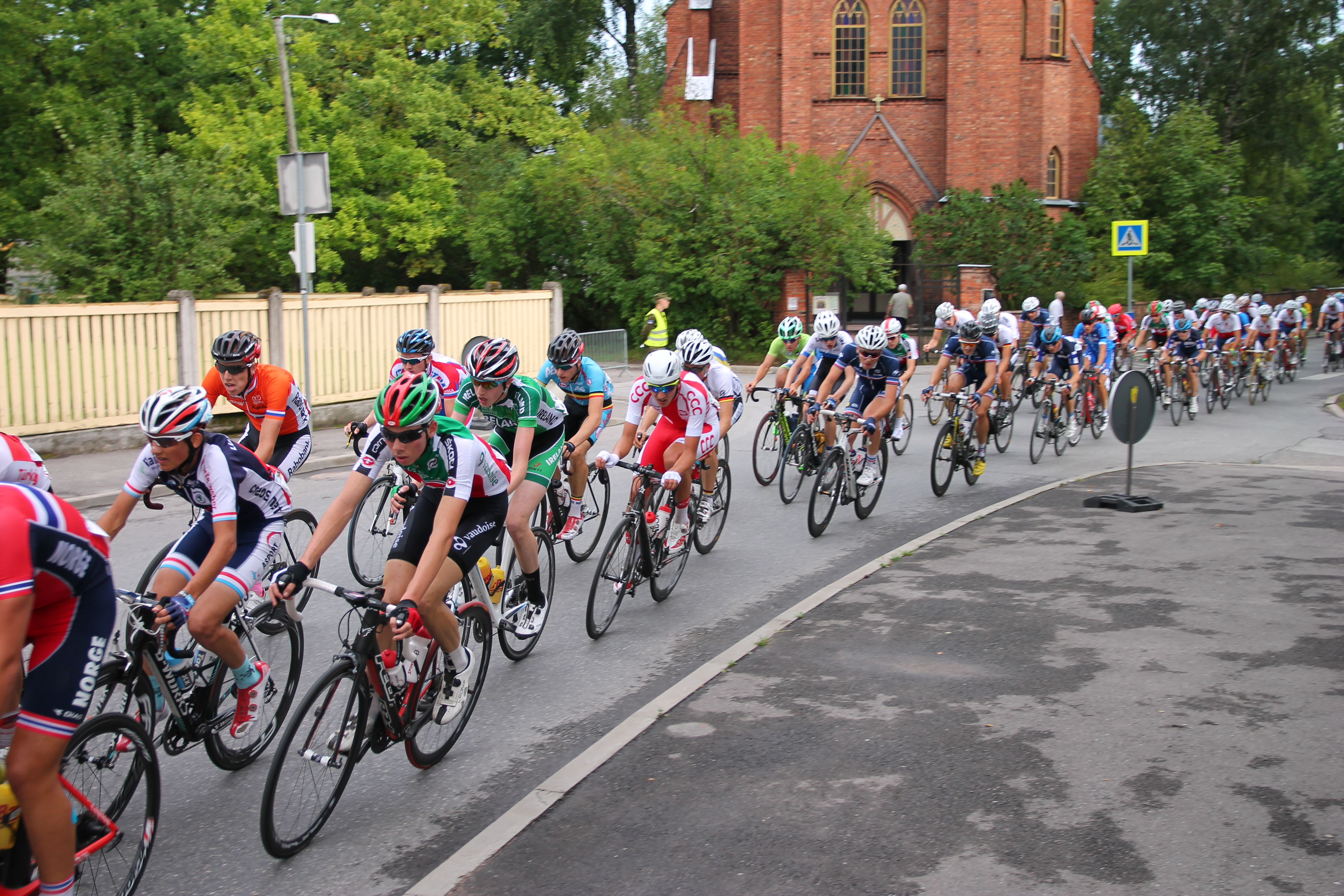 European Road Championships, Tartu, 2015Eʋegbe: 2015. aasta maanteesõidu Euroopa meistrivõistlused, Tartu